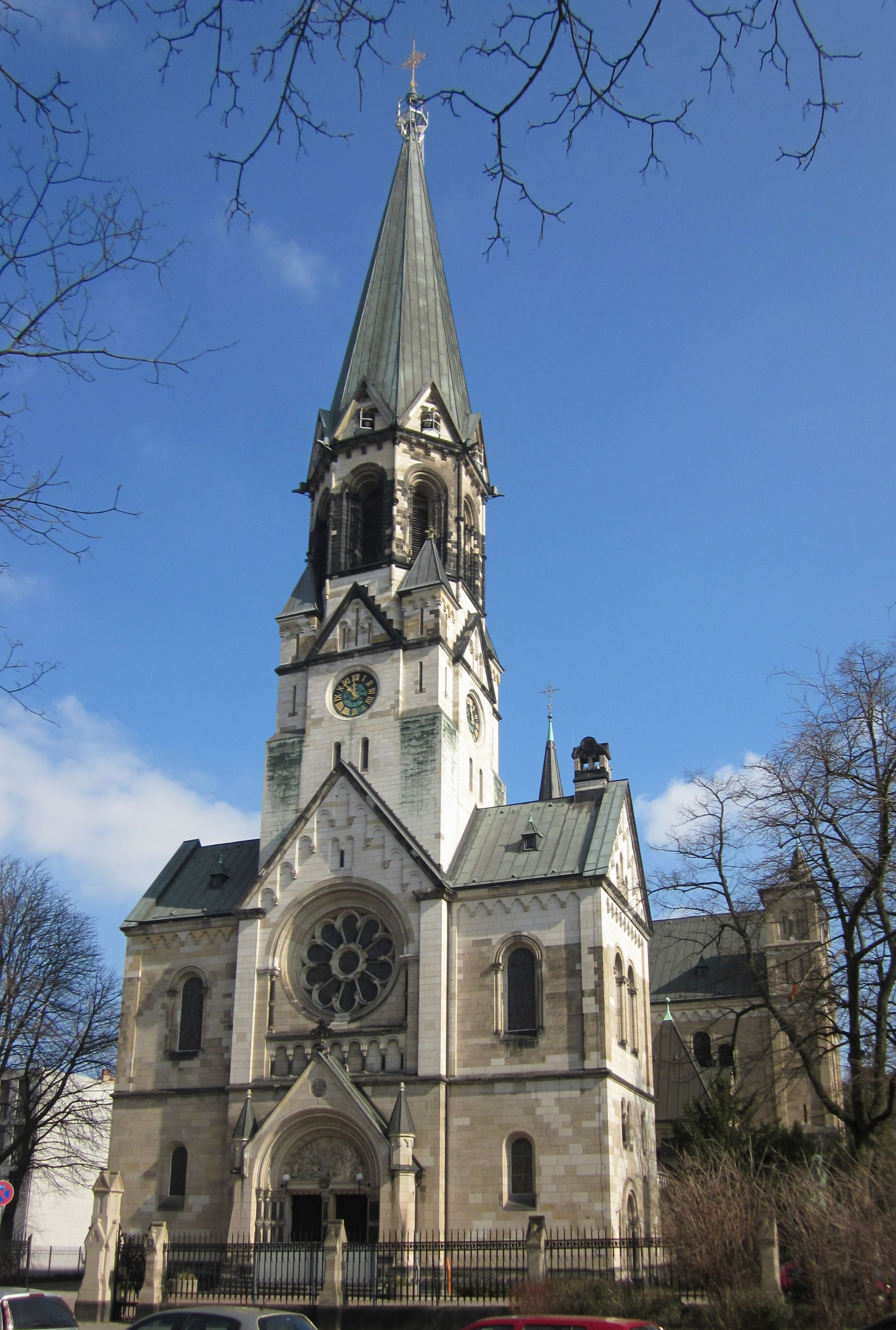 St. Johannes Basilica on Lilienthalstraße in Berlin-Neukölln. It was built from 1895 to 1897 to a design by August Mencken and originally served as church for the Catholic members of the Berlin garrison. The St. Johannes Basilica has been designated as a historic landmark.